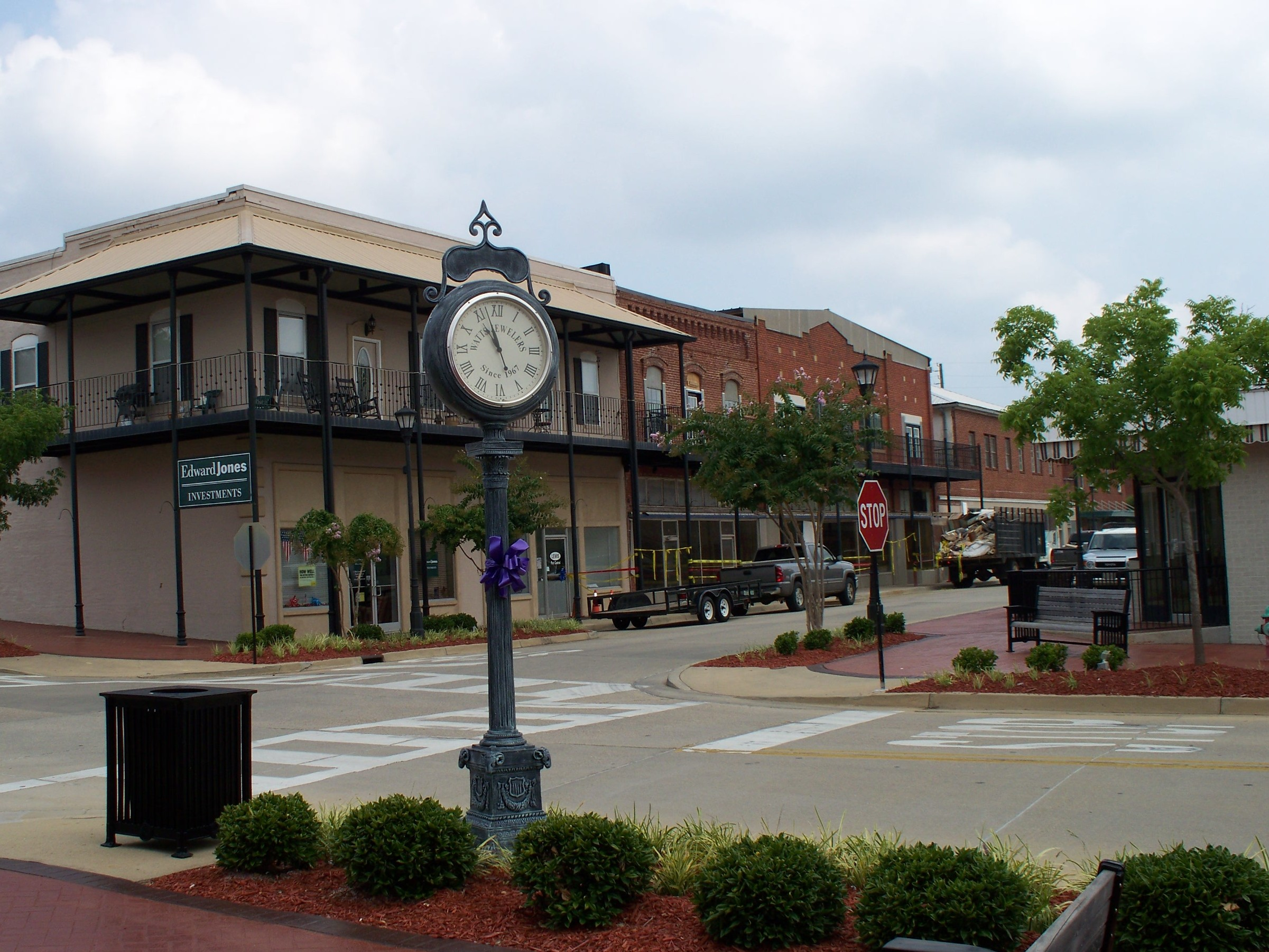 Downtown Thomasville, Alabama. The intersection of West Front Street and Wilson Avenue.